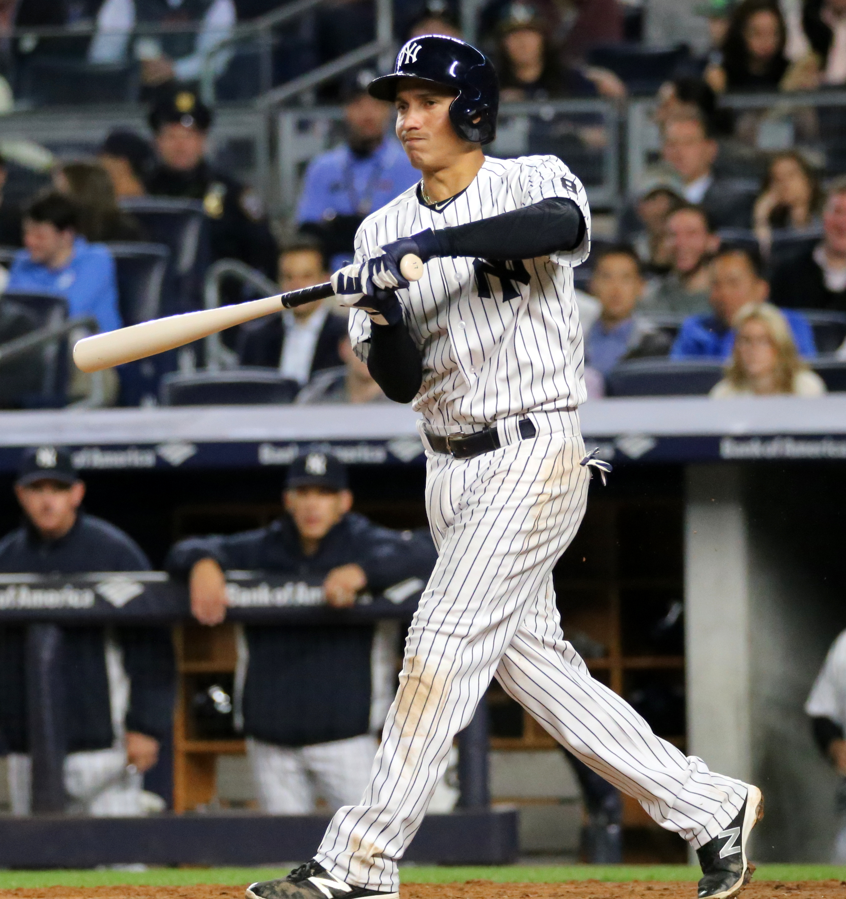 Ronald Torreyes